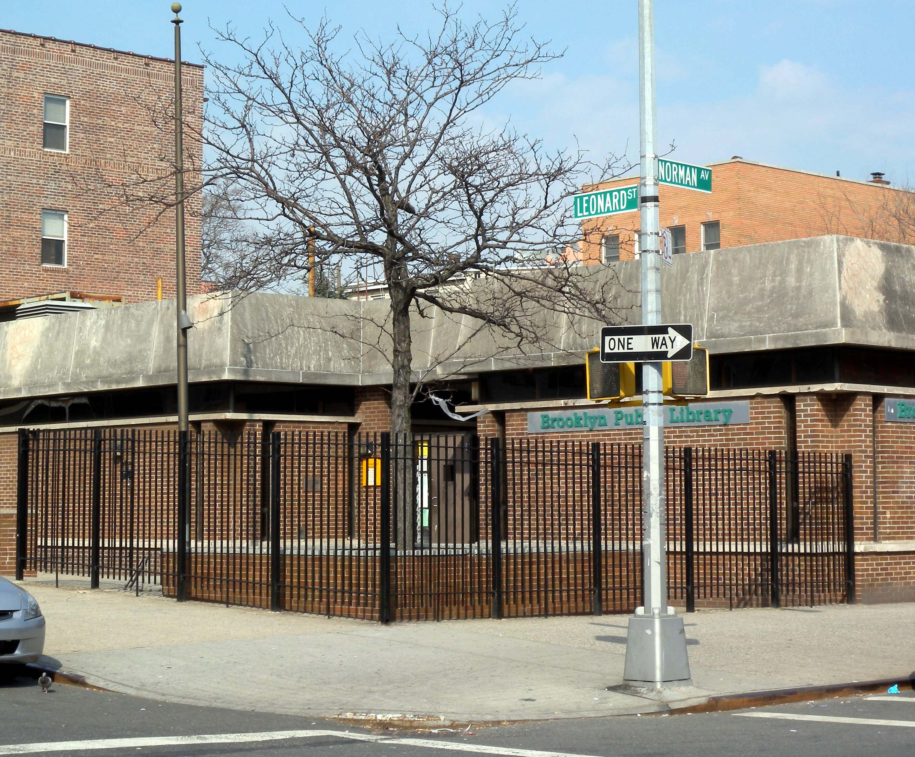 Looking northeast at Greenpoint Branch of Brooklyn Public Library on a cloudy afternoon.